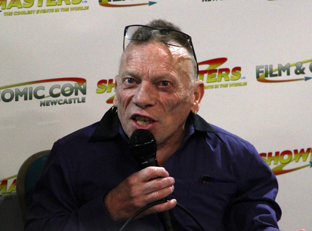 Jimmy Vee at convention